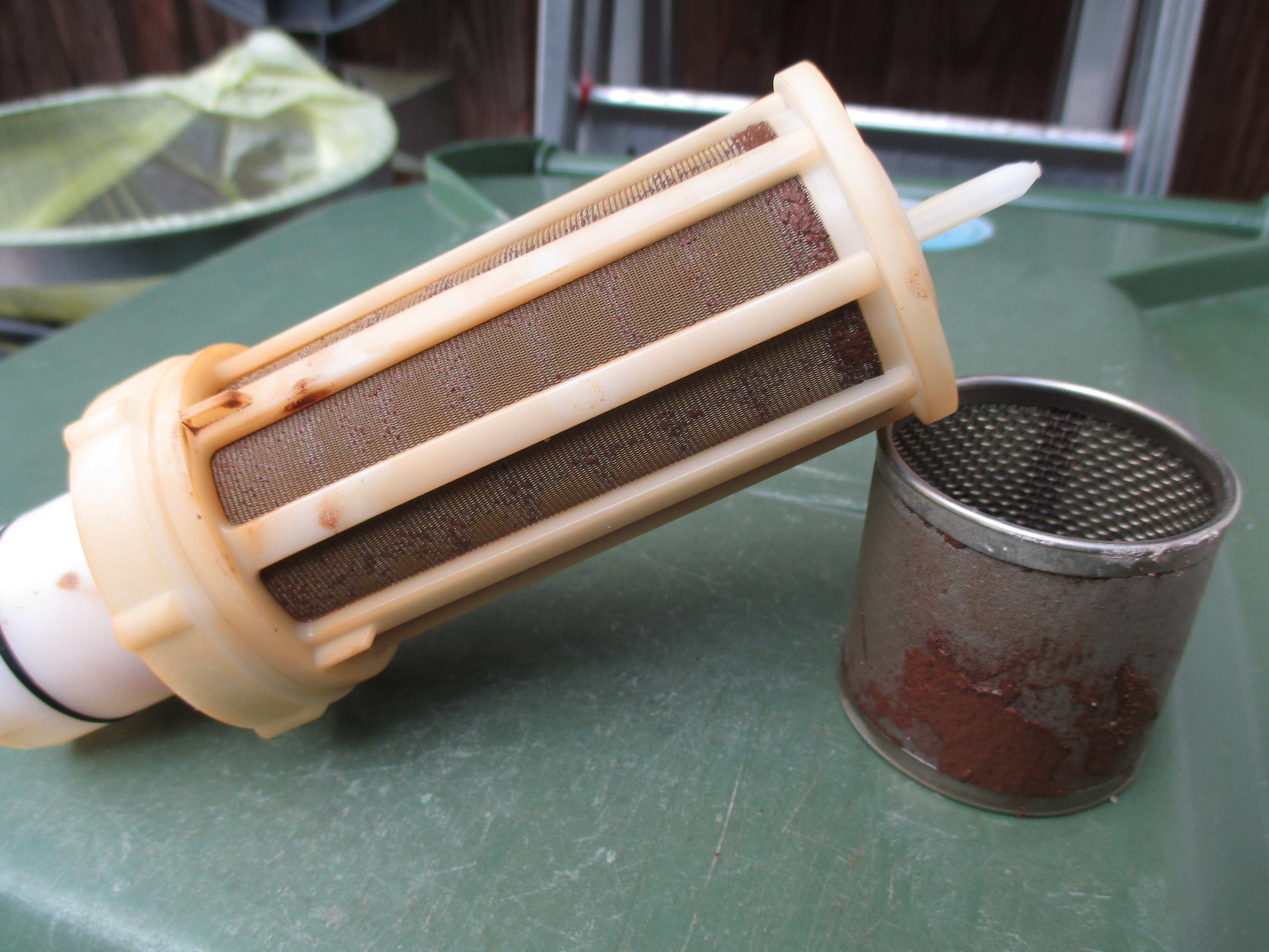 An added rust particles with metal mesh water filter cartridge (inlusive fine filter)